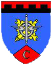 (Internal) coat of arms Stabskompanie Logistikbrigade 100 (StKp LogBrig 100) of the Bundeswehr (Armed Forces of the Federal Republic of Germany). → Remarks on naming and categorization scheme